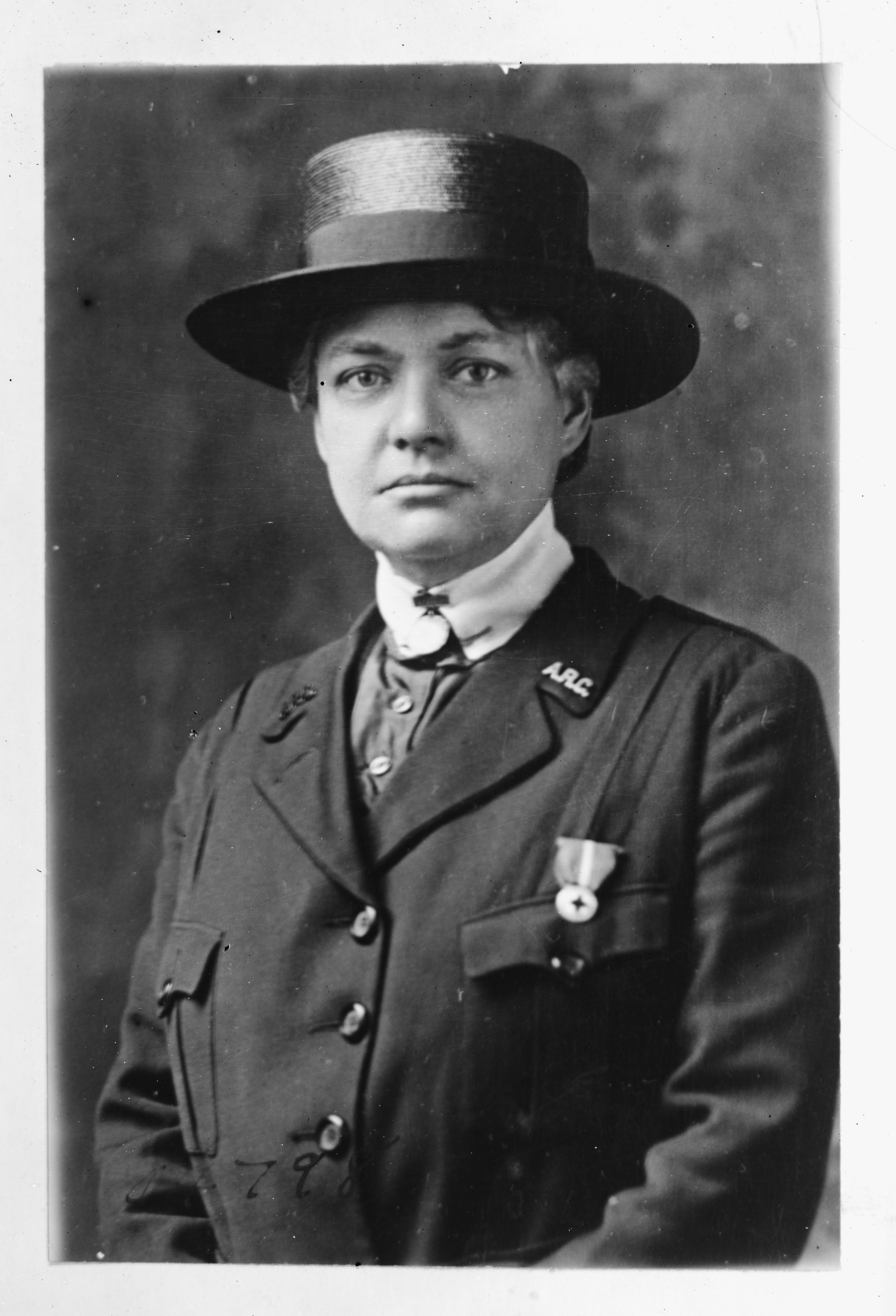 Black-and-white waist-up photograph of a white woman (Lucy Minnigerode) in uniform, with a brimmed hat and a medal pinned to her chest, from a 1919 publication.